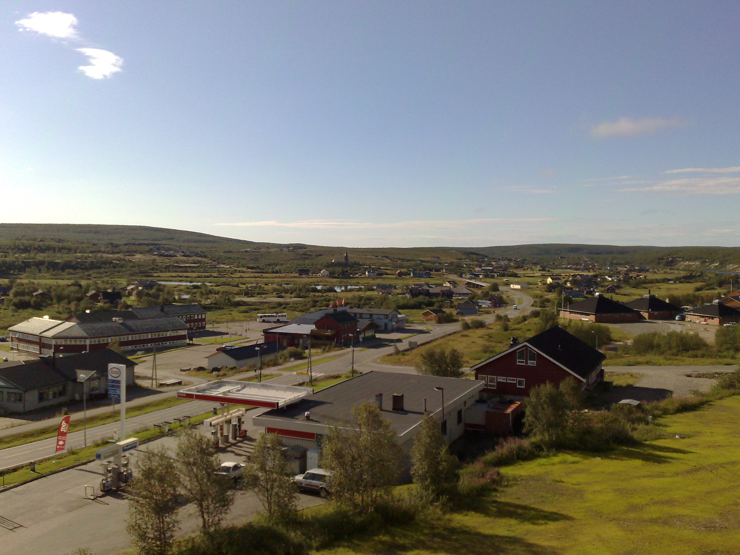 The largest municipality in Norway, and center for sami culture.